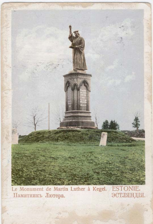 Postcard of Luther statue near Keila, Estonia, erected in 1862, given by Georg von Meyendorff (Generaladjutant), sculpted by Peter Clodt von Jürgensburg, demolished in 1949